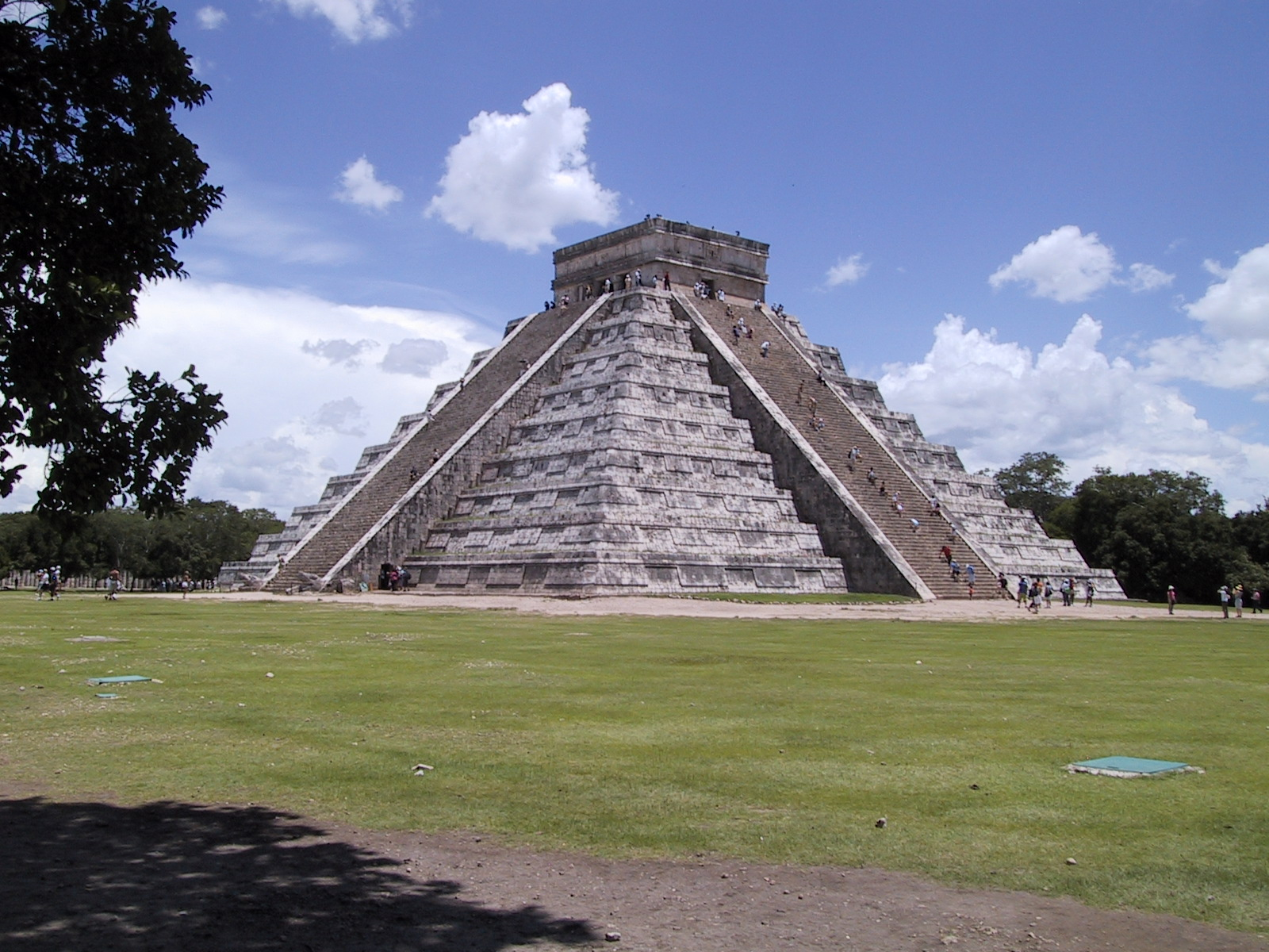 NNE & WNW Kukulcán pyramid side